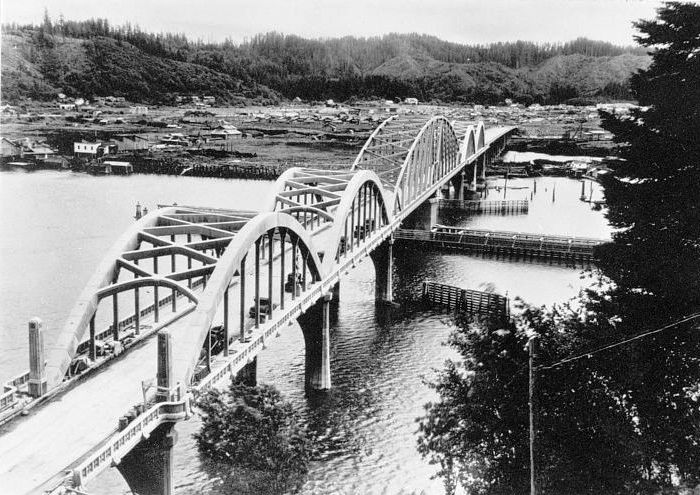 Umpqua River Bridge in 1939. Info page.